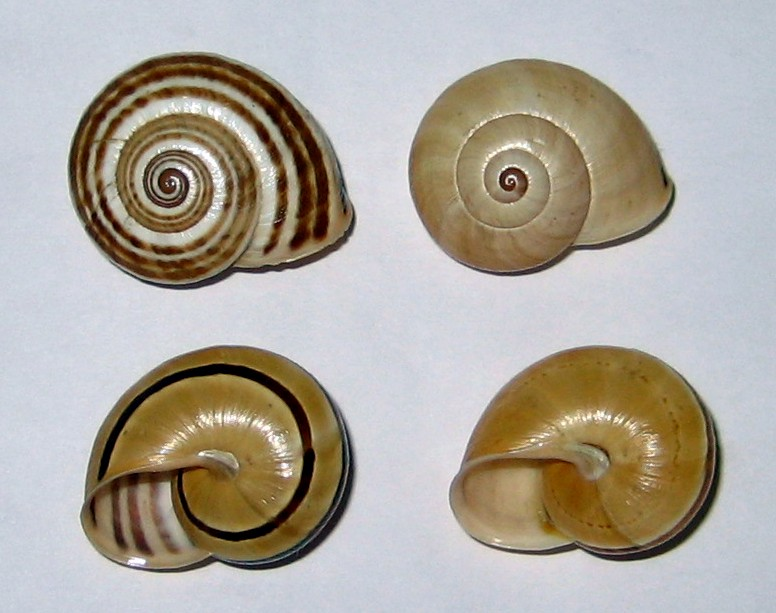 Pseudotachea splendida. Near Tortosa (Catalonia, Spain)